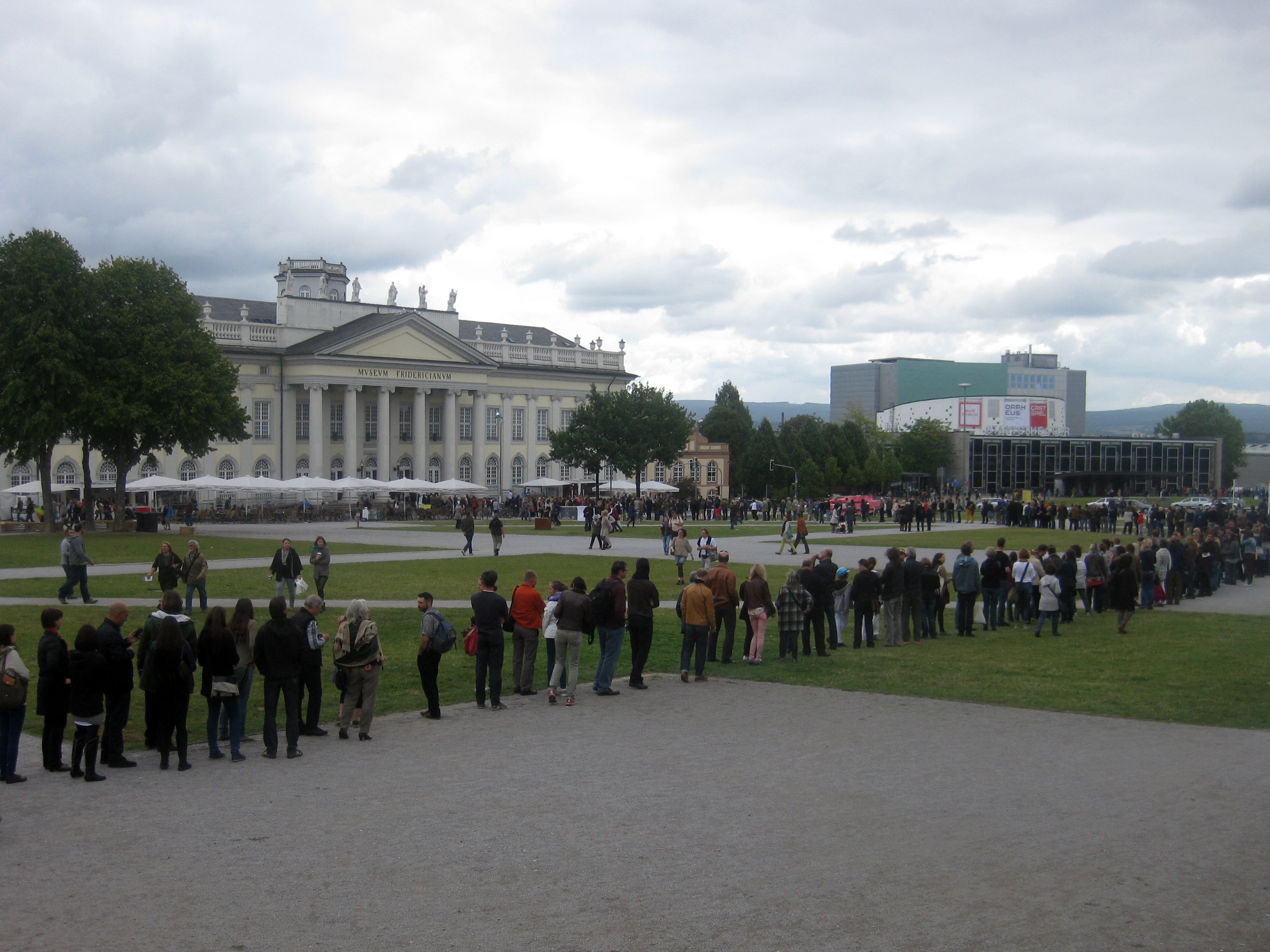 Visitors in front of the Fricericianum during the last weekend of Documenta 13